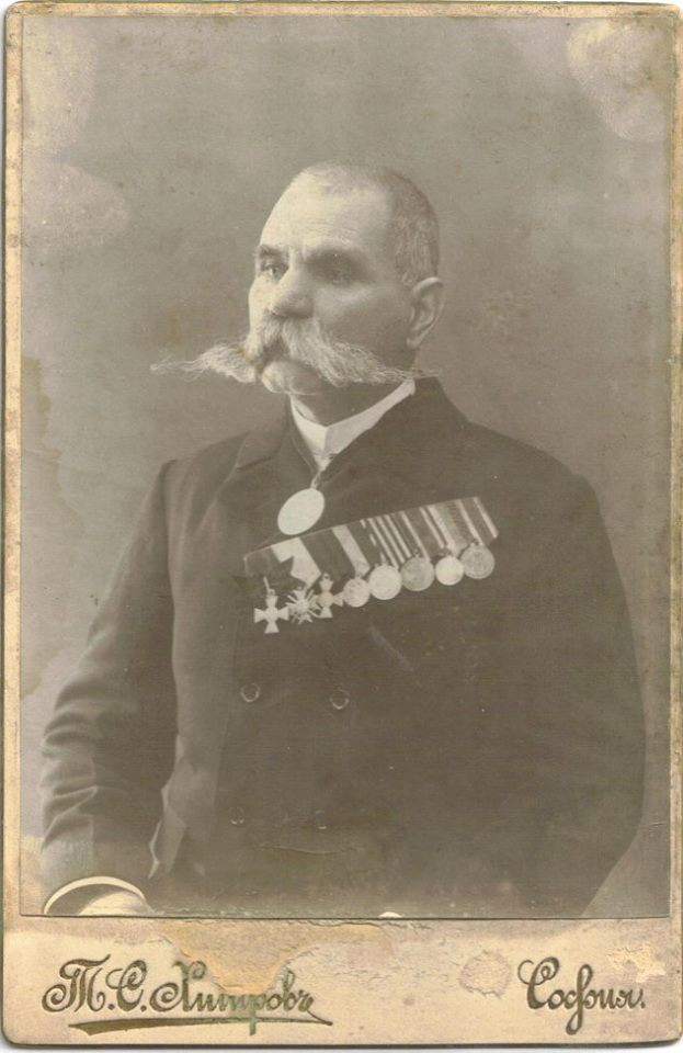 Angel Gerchev